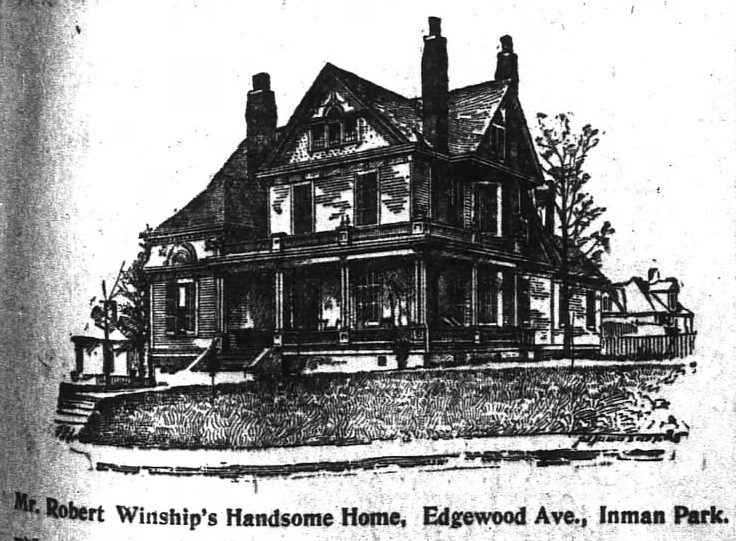 Robert Winship home, Inman Park, Atlanta, 1895